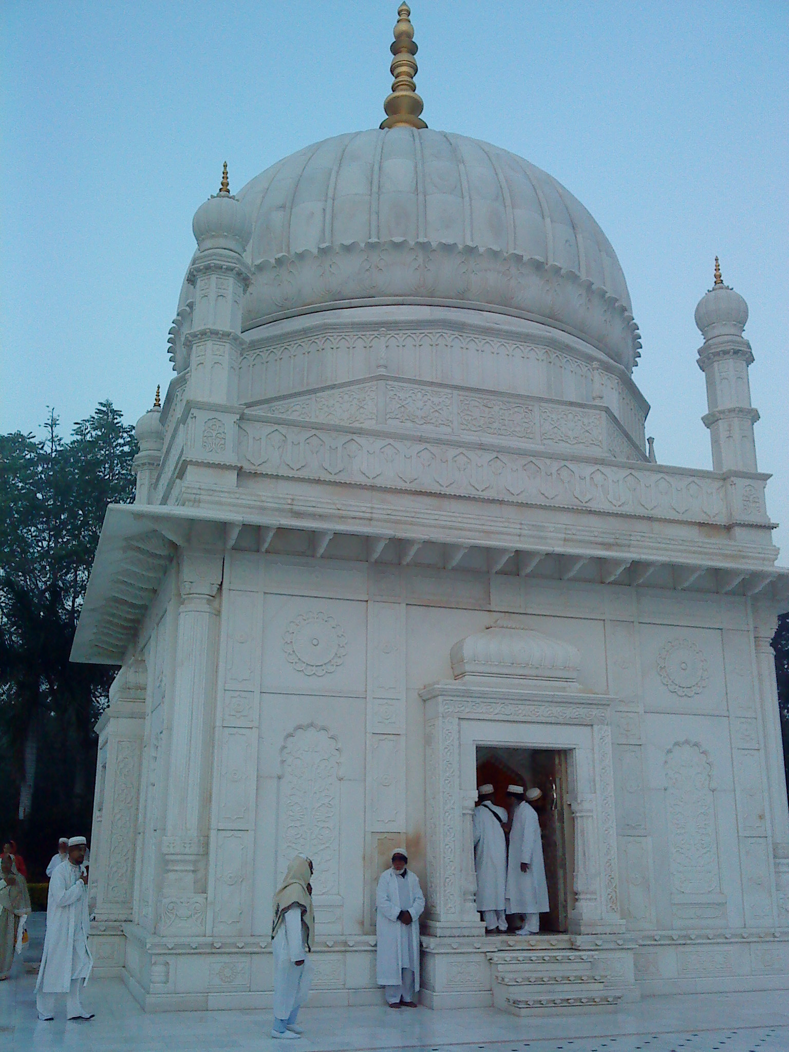 Mausoleum Fakhruddin Shahid